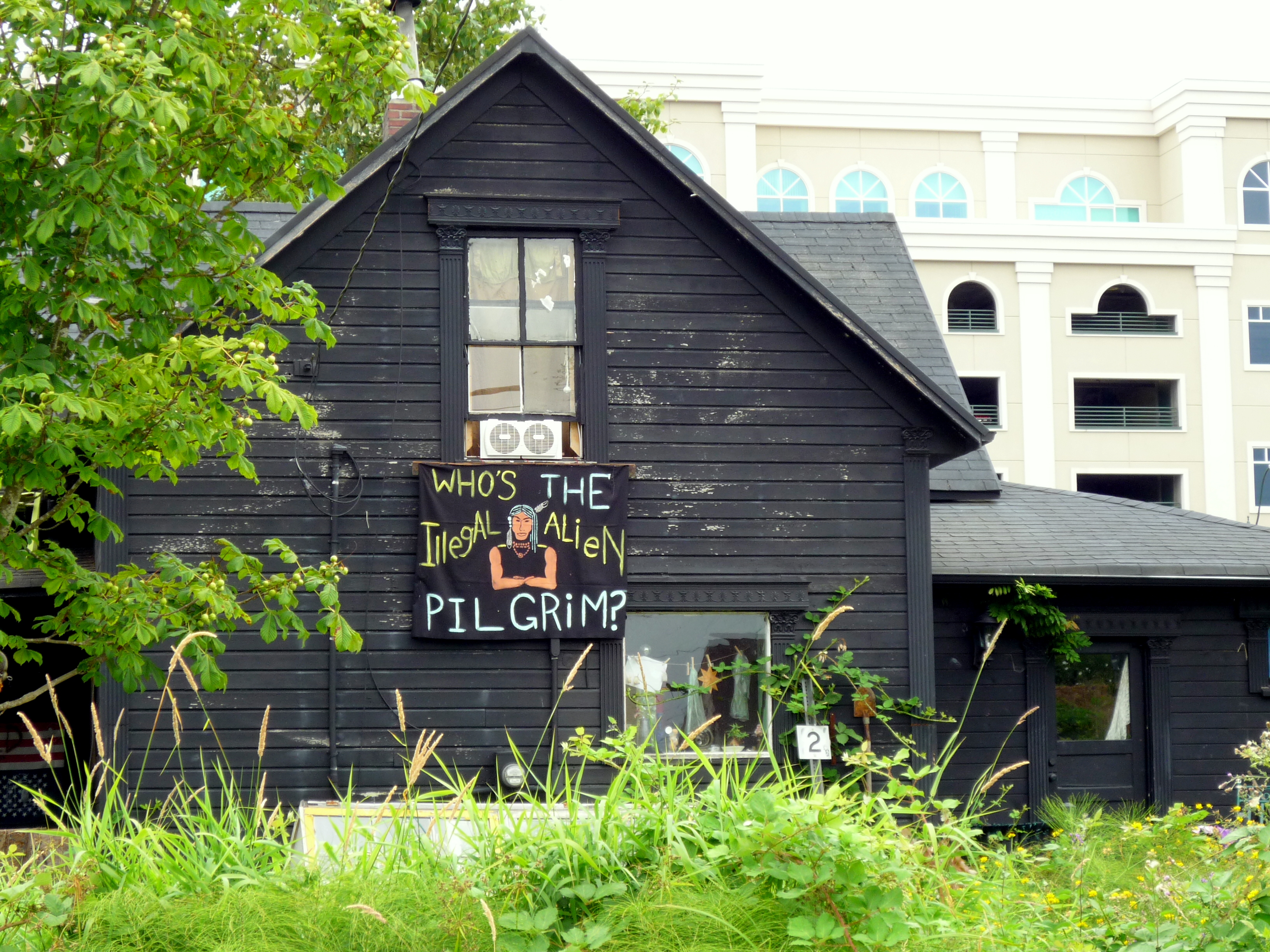 Olympia Washington's legendary track house